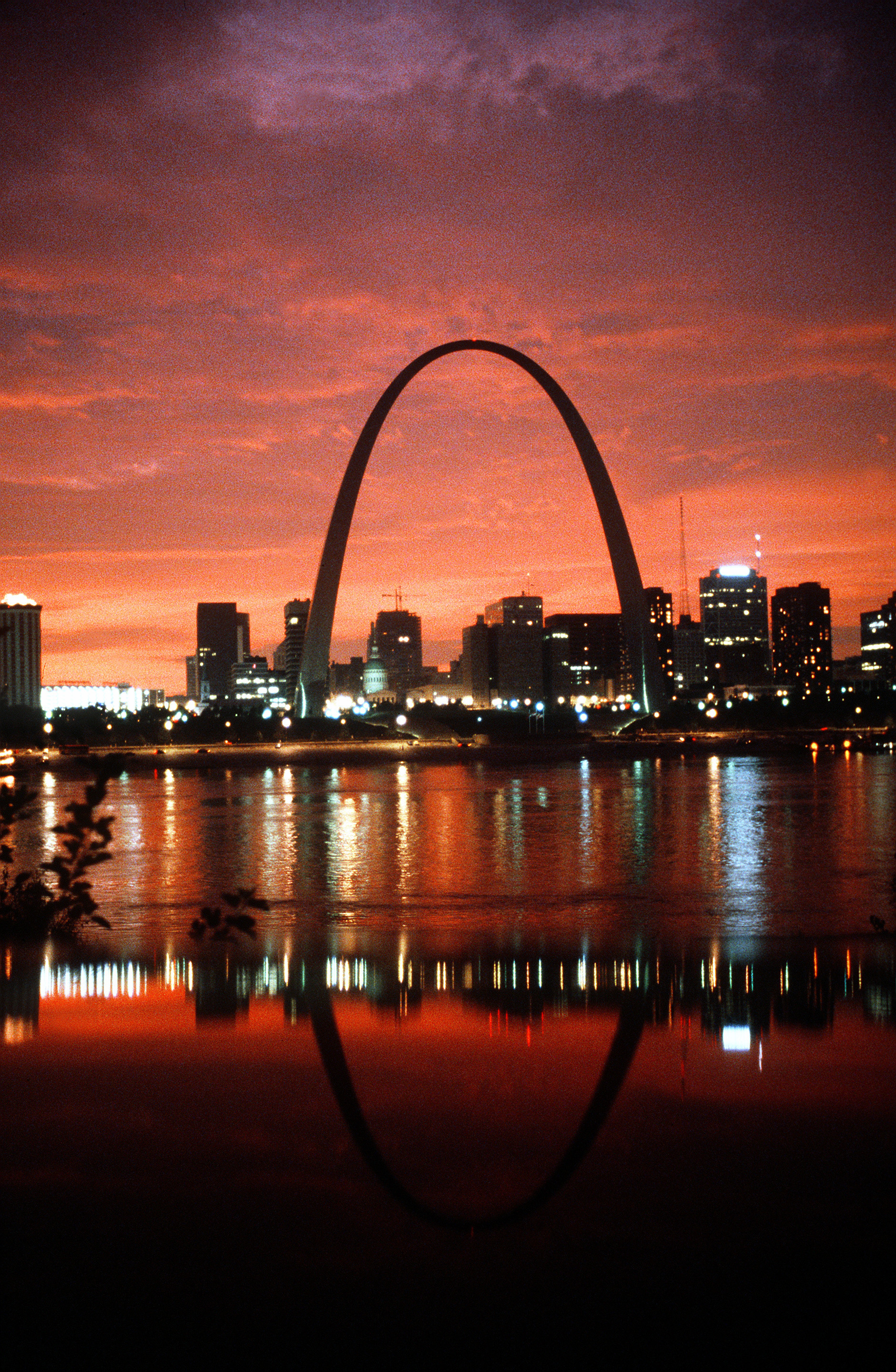 A night time view looking across the Mississippi River of the St. Louis Arch and city skyline.